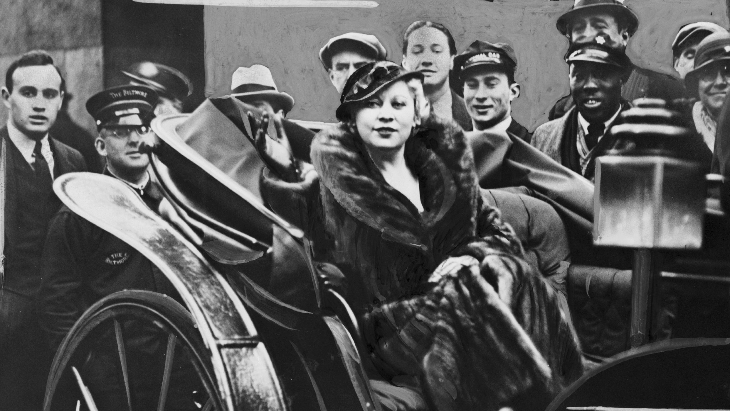 Mae West. Library of Congress description: "Diamond L'il rides home from Hollywood... / World Telegram photo. Mae West, riding in a carriage, on her return from Hollywood."